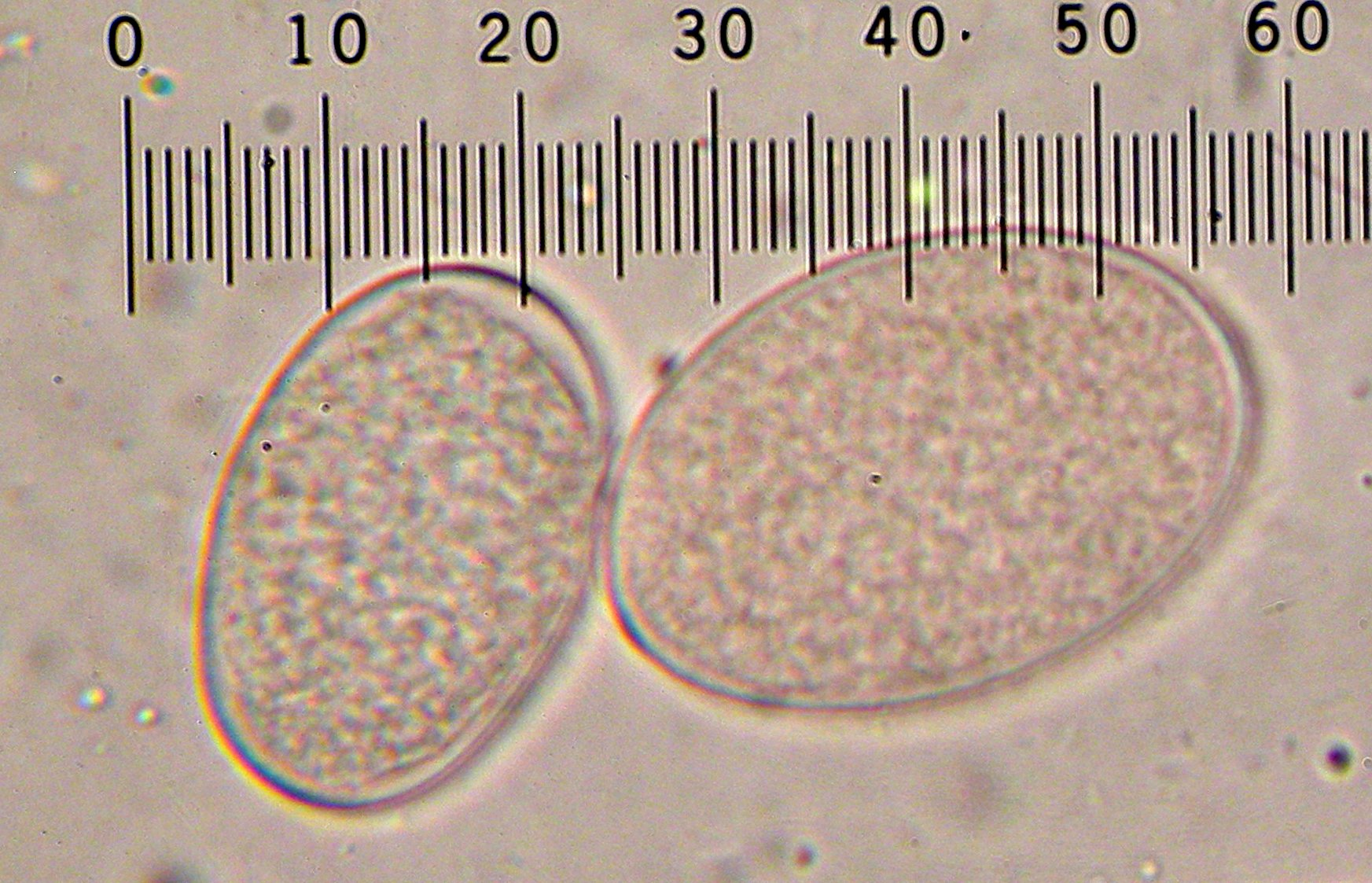 Micrograph of the spores of Morchella snyderi M.Kuo & Methven. From specimens collected in Silver Fork road, Eldorado National Forest, California, USA.